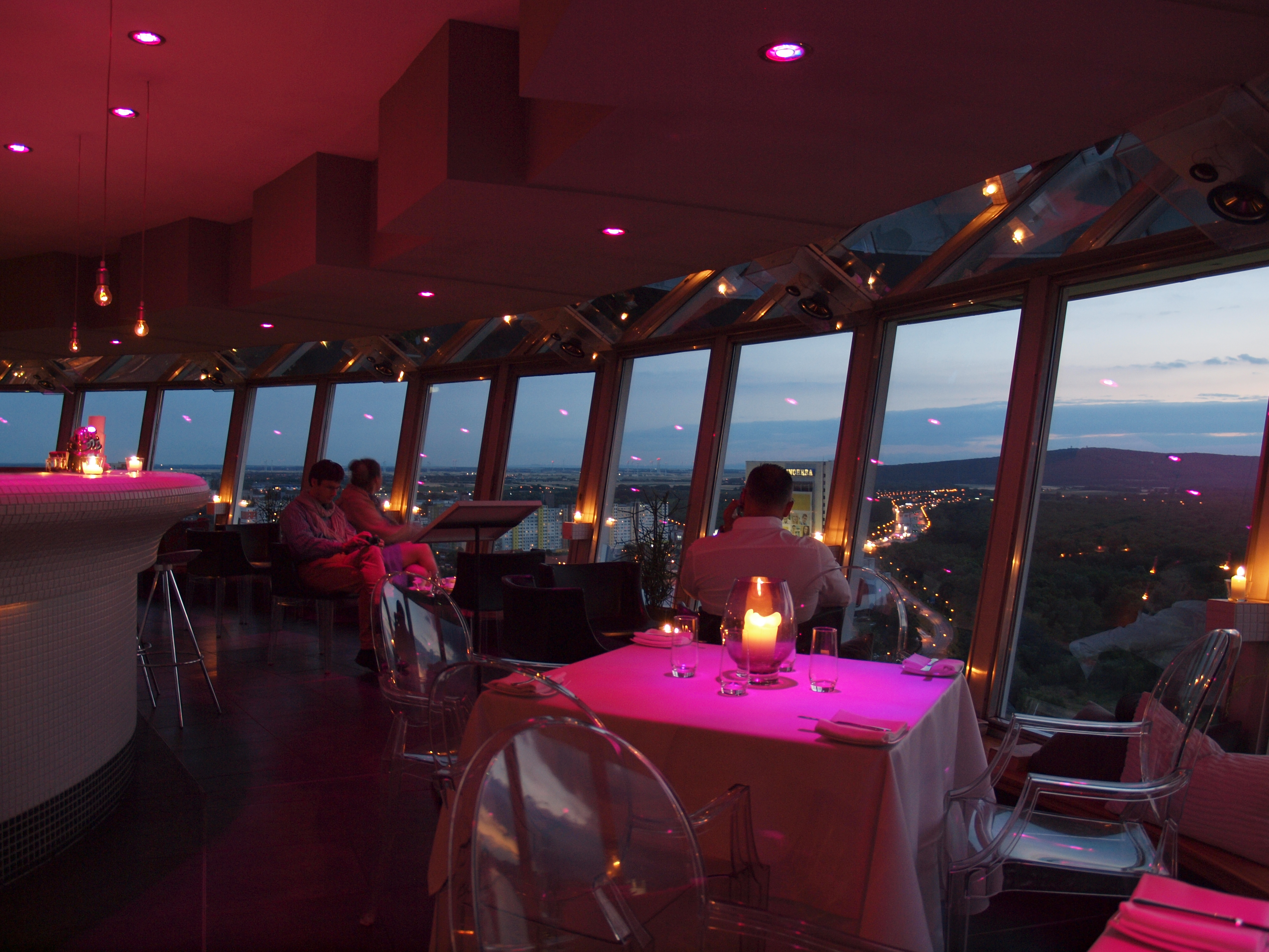 An interior view of restaurant UFO in Bratislava, Slovakia.